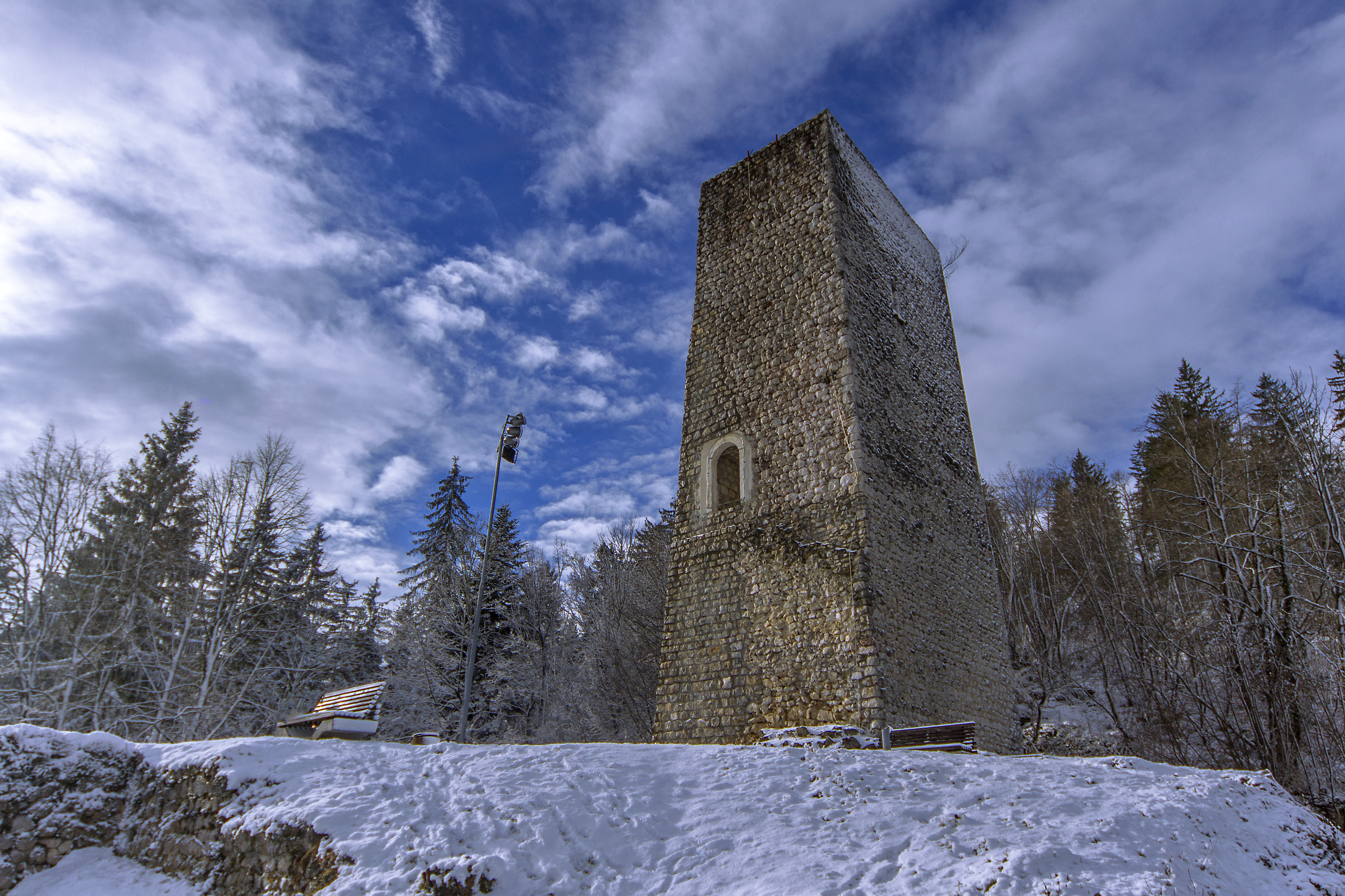 An old castle in Šoštanj This media shows a cultural heritage object of Slovenia with the EŠD number: 4331